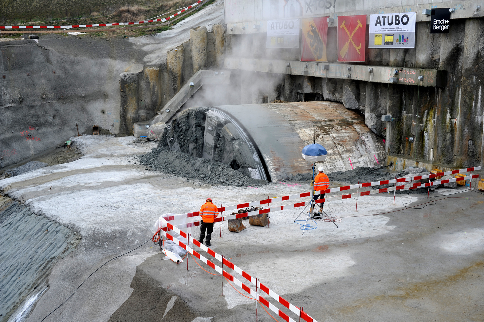 Construction of the A5 highway east bypass of Biel; 12.6 m diameter drill head of the tunnel drilling machine «Belena» one day after cutting of the first section Bözingen-Orpund, the western tunnel section of the «Büttenbergtunnel»; Berne, Switzerland.